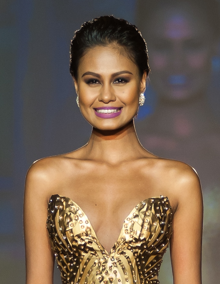 Venus Raj attending the "Kol Hope Foundation for Children presents Canada Philippine Fashion Ball: A Salute to Francis Libiran" held at the The Concert Hall at The Royal York in Toronto, Canada in March 2014.